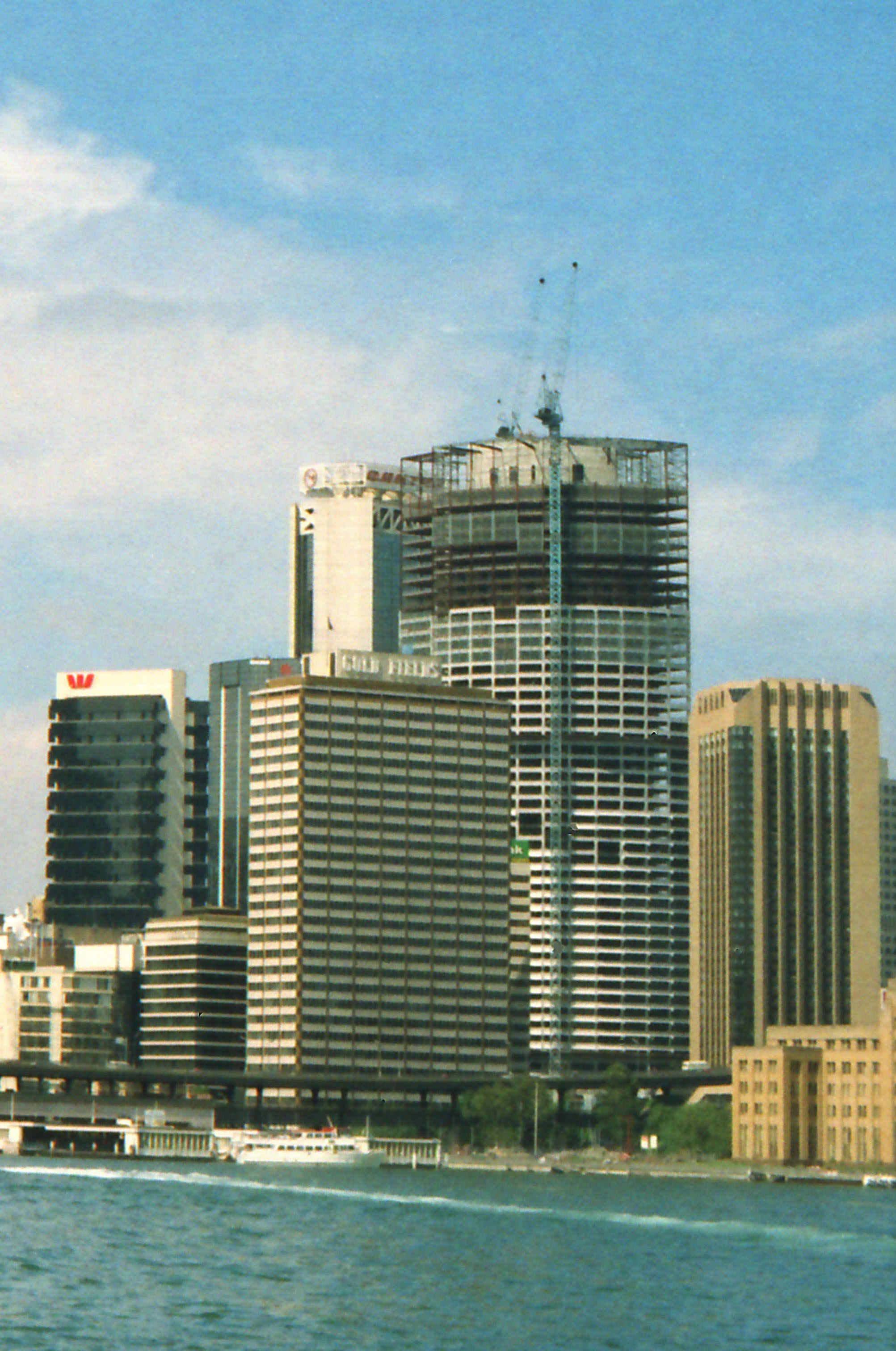 Cropped version of File:Sydney skyline 1987.jpg